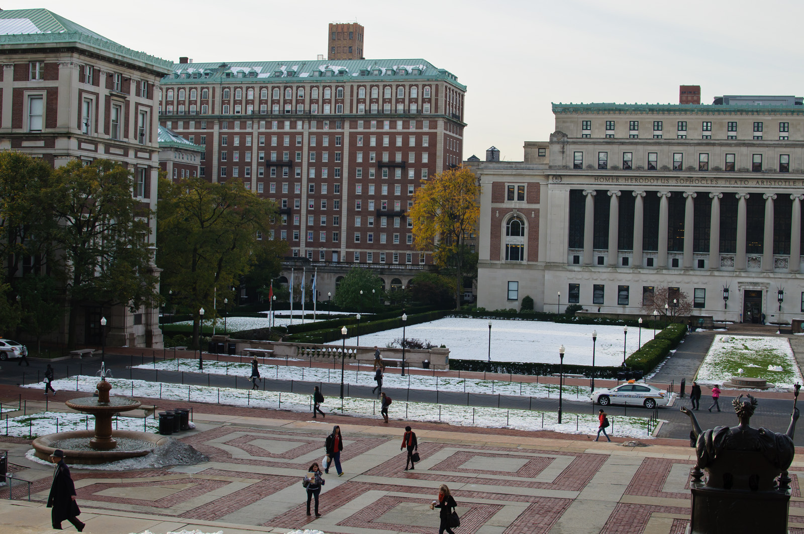 It is Monday just past 9, and the first classes of the week are taking place. The campus is waking up from the weekend's freak snowstorm. To the left is Hamilton Hall, home to undergraduate administrative offices; it is named after Alexander Hamilton, America's first Secretary of the Treasury and a Columbia alumnus. To the right is Butler Library, the main humanities library on campus and my former workplace. The tall building in the distance is John Jay, a freshman dormitory, named after the inaugural Chief Justice of the United States Supreme Court and also a Columbia alumnus. Columbia University is located in the Morningside Heights neighborhood of Manhattan, bordering Harlem to the north and east and Upper West Side to the south. The McKim, Meade, and White architectural team designed the current campus in the late 1890s, replacing older campuses further downtown. Columbia University is one of the eight members of the prestigious Ivy League; the other seven, all in the Northeastern US, are Dartmouth, Harvard, Brown, Yale, Cornell, Princeton, and Pennsylvania.